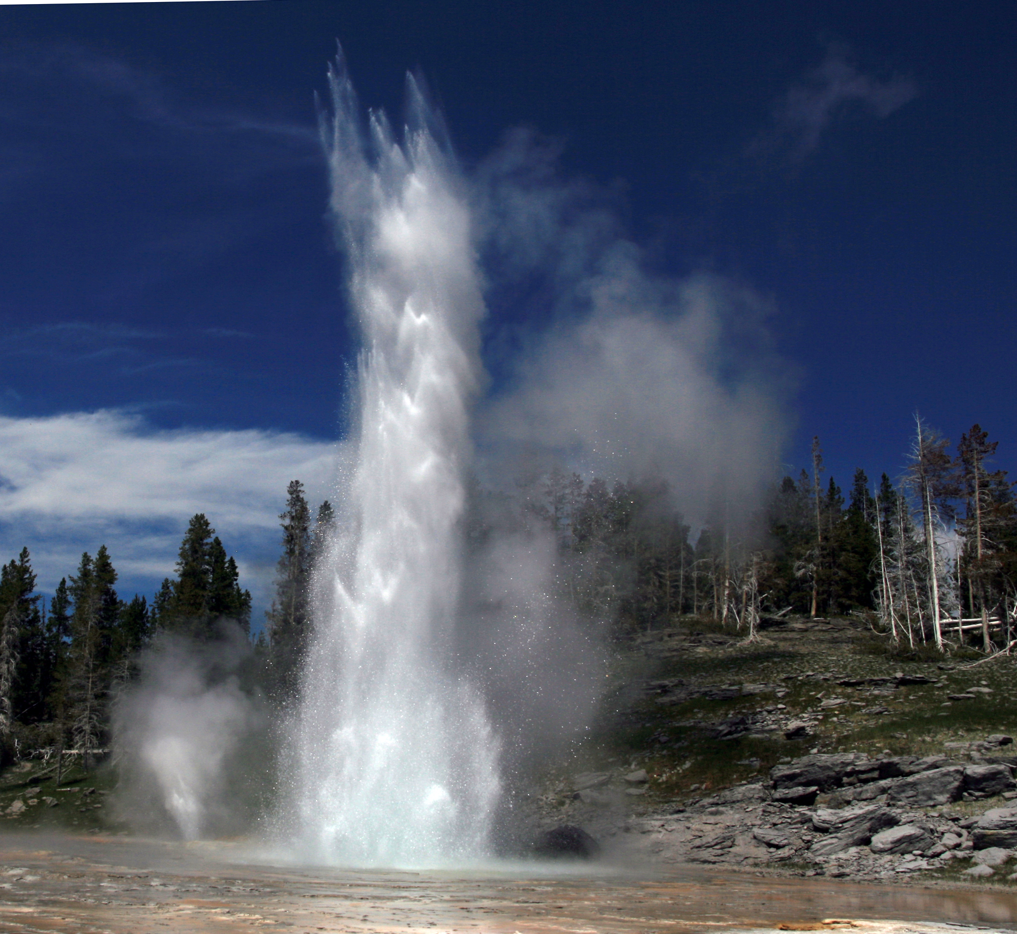 Grand Geyser erupts (right) with a simultaneous eruption from Vent Geyser (left). Grand Geyser is a fountain-type geyser reaching 200 feet in height and lasting up to 12 minutes. Grand Geyser is considered the tallest predictable geyser in the world, erupting about every 12 hours. It is often accompanied by burst or eruptions from Vent Geyser and Turban Geyser just to its left. Upper Geyser Basin. Upper Geyser Basin, Yellowstone National Park, Wyoming, USA